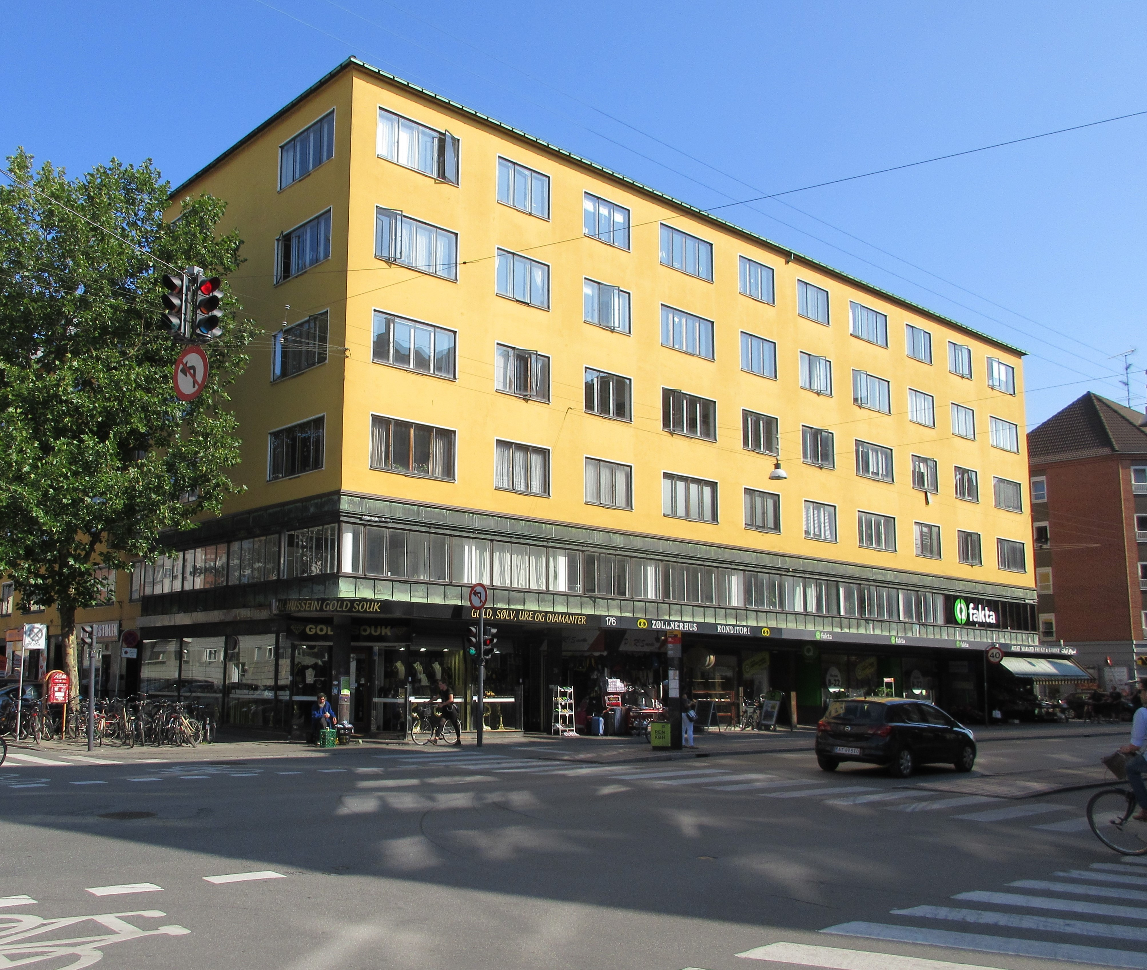 Zøllnerhust viewed from Nørrebrogade in Copenhagen, Denmark